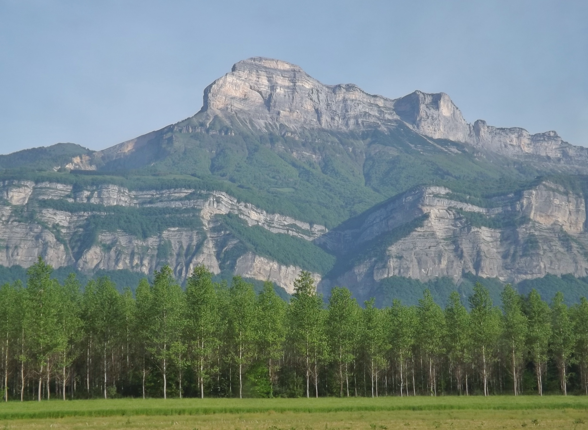 Sight of the dent de Crolles mountain in the eastern side of the Chartreuse mountain range, from the railway line between Chambéry and Grenoble in the Grésivaudan valley, Isère, France.